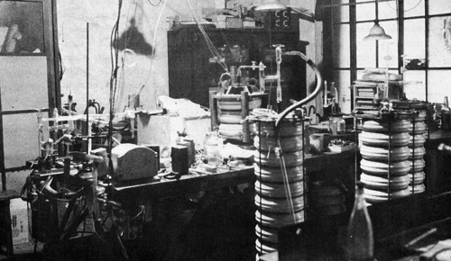 Study of Van de Graaff Generator is made in the Physical Chemistry Laboratory, Tokyo University.